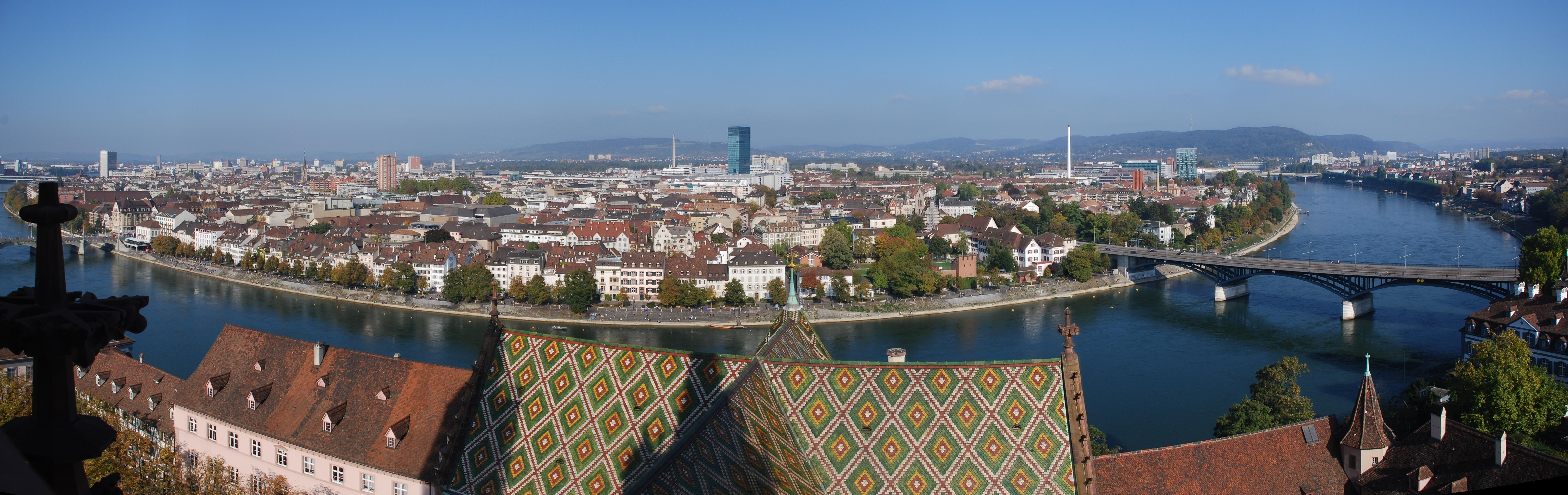 View over Basel and the Rhine knee from Basler Münster